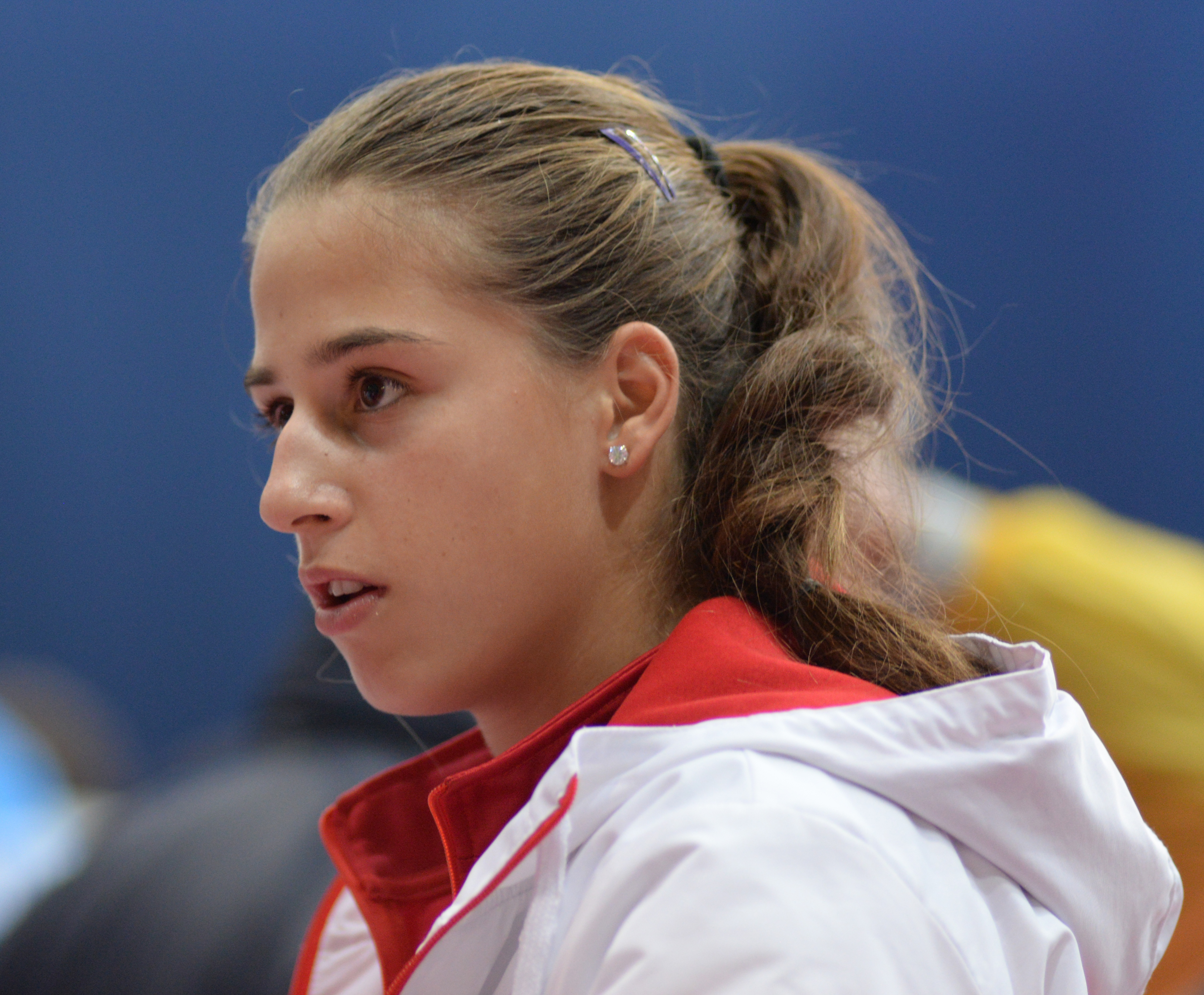 Ivana Jorović at the 2015 Fed Cup